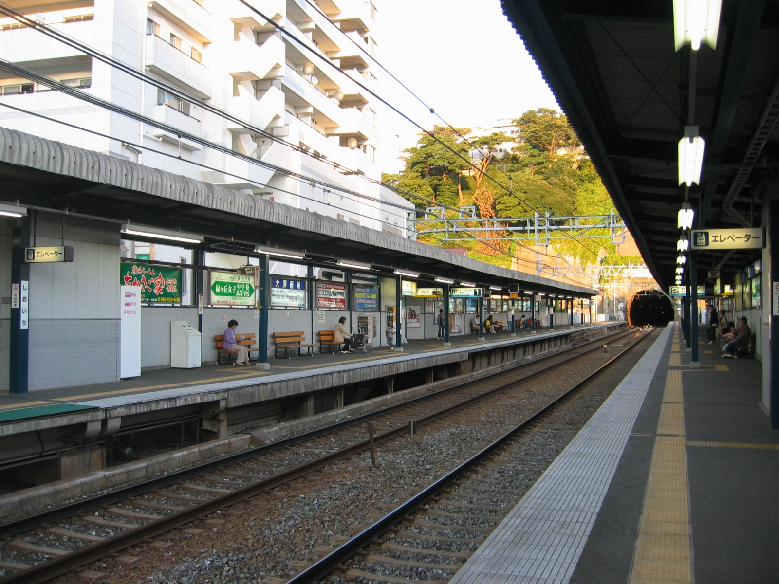 Keikyu Main Line, Shioiri Station (Yokosuka, Kanagawa, Japan)